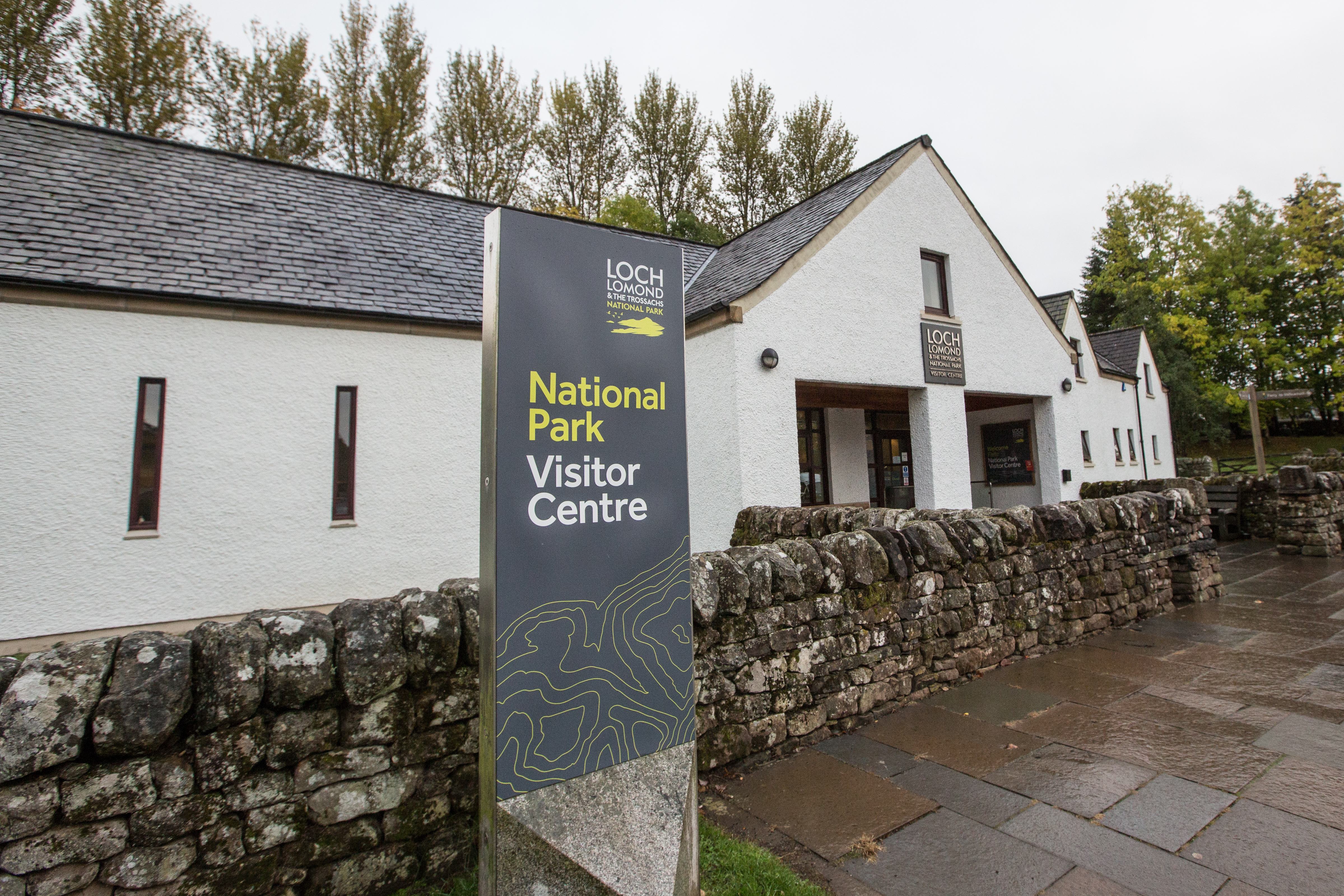 Loch Lomond Visitor Centre Scotland 12295657126 o